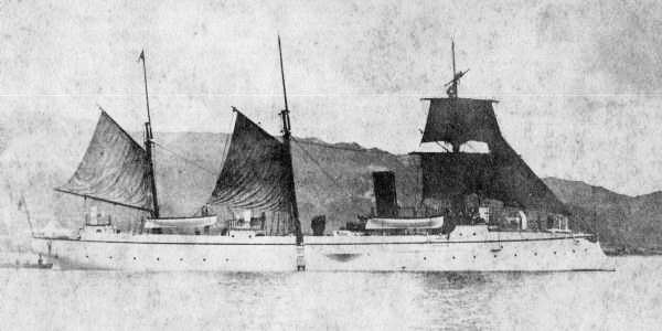 Japanese gunboat OSHIMA off Kobe.